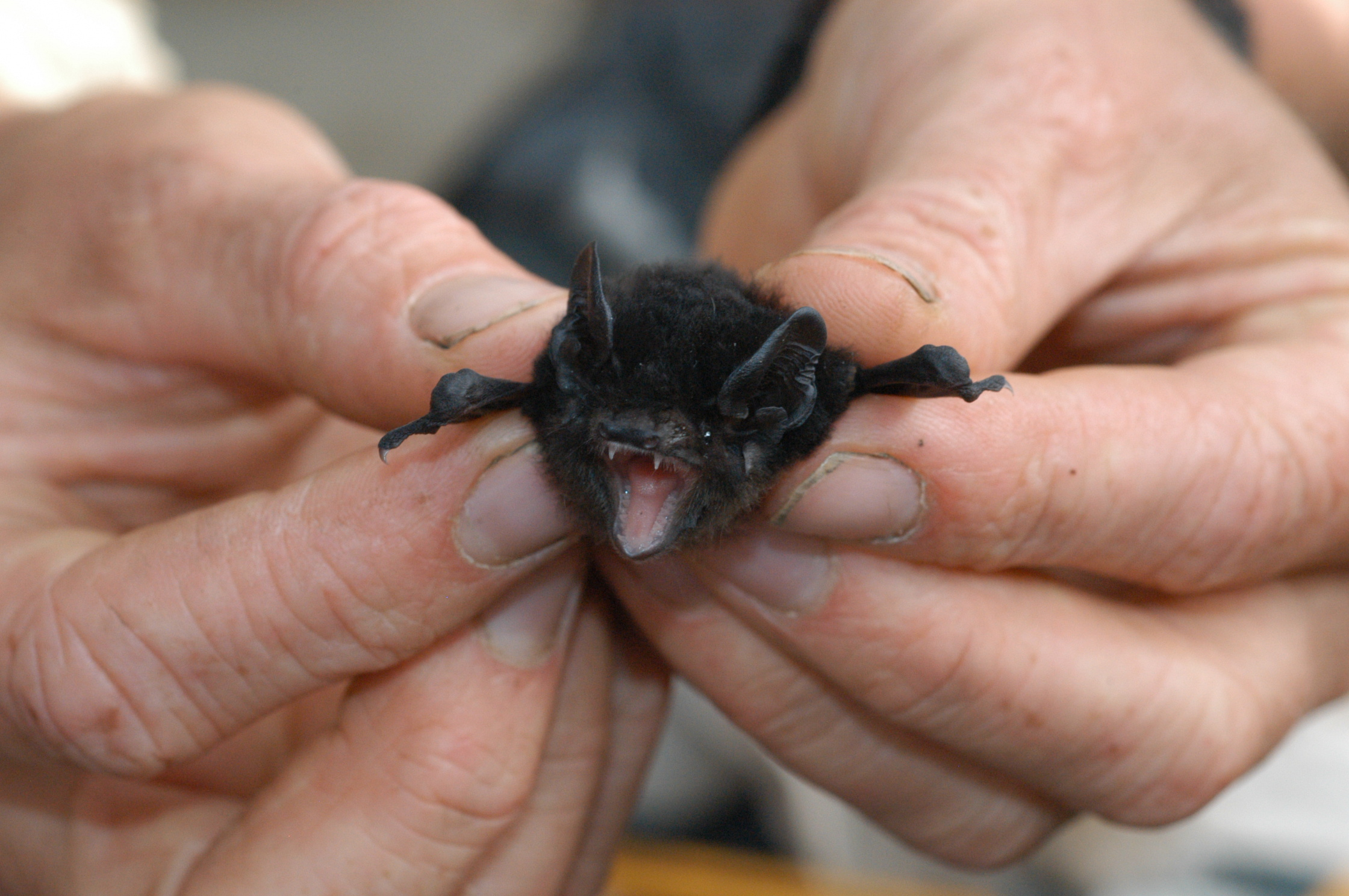 Large-eared Pied Bat (Chalinolobus dwyeri) caught in harp trap.